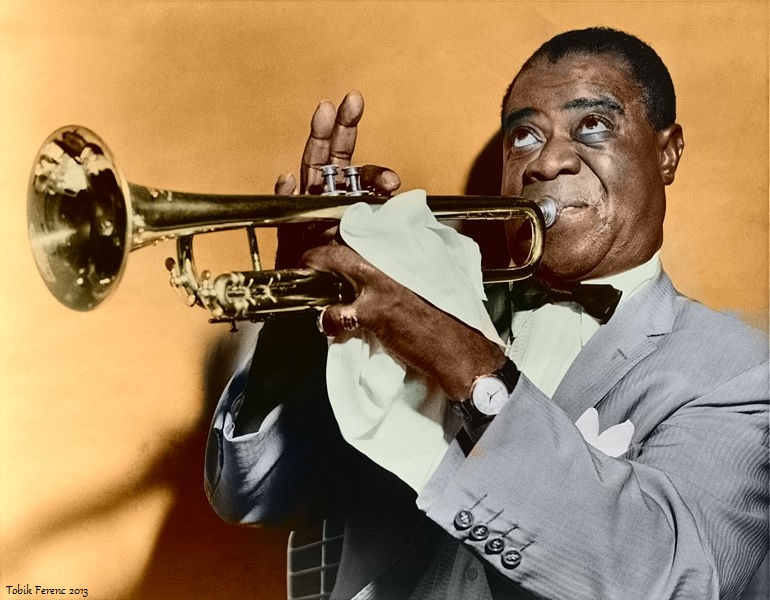 Louis Armstrong, jazz trumpeter